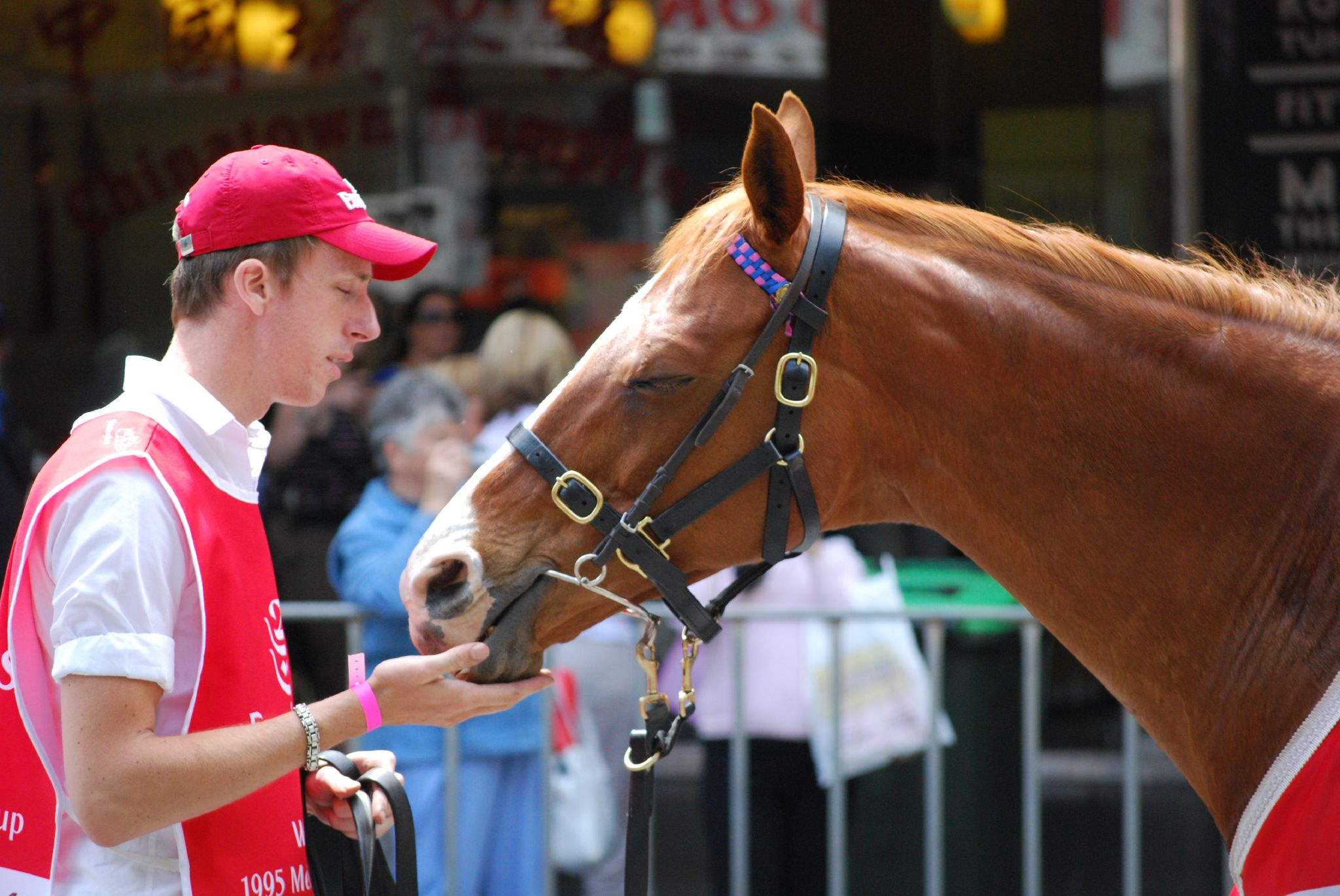 Emirates Melbourne Cup Parade - That's Melbourne Attracting over 60,000 people to the City of Melbourne, the parade showcases past champion horses and celebrates the rising stars of the Emirates Melbourne Cup. A colourful, fun and entertaining parade in the City of Melbourne for Members of the general public, culminating at Federation Square. Parade commences in Bourke Street Mall, travels along Swanston Street and concludes at Federation Square. 12:00 - 13:00